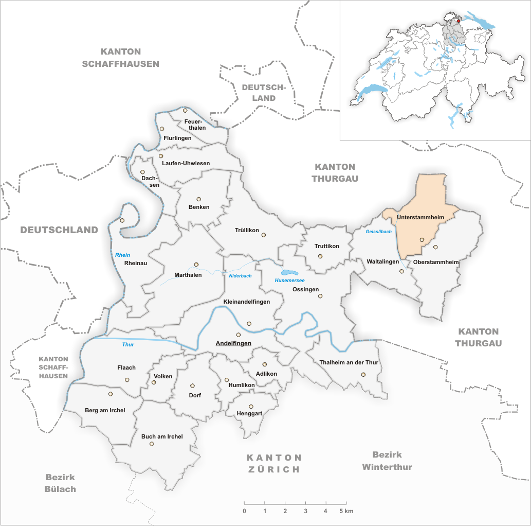 Municipality Unterstammheim